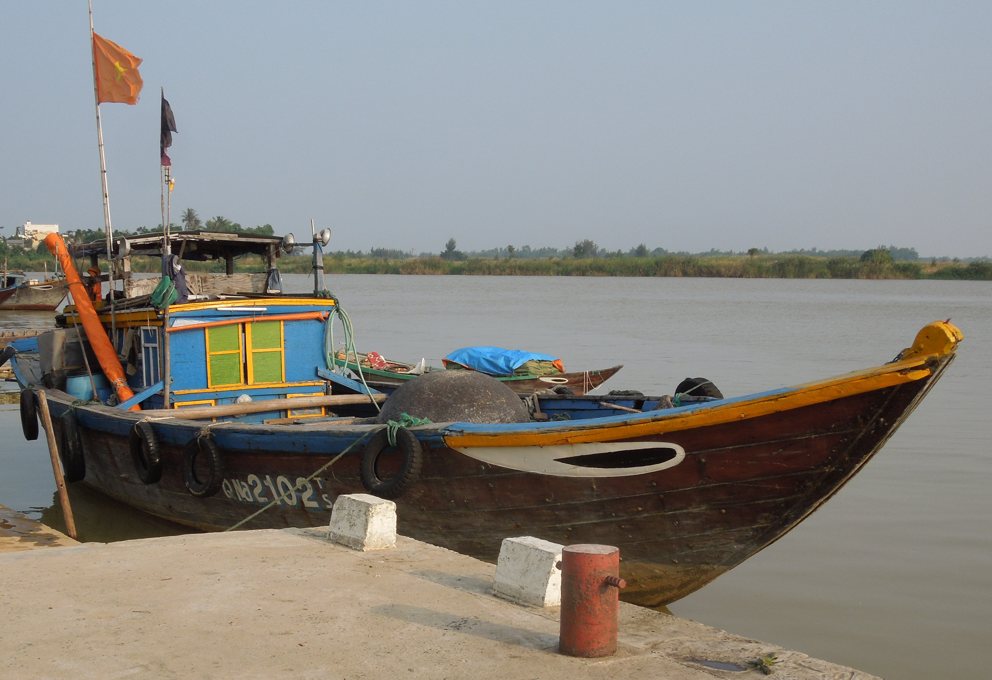 In historic theory of south-east asia, ship's eye-marked head is for amulet of crocodile proof. at HoiAn Vietnam.